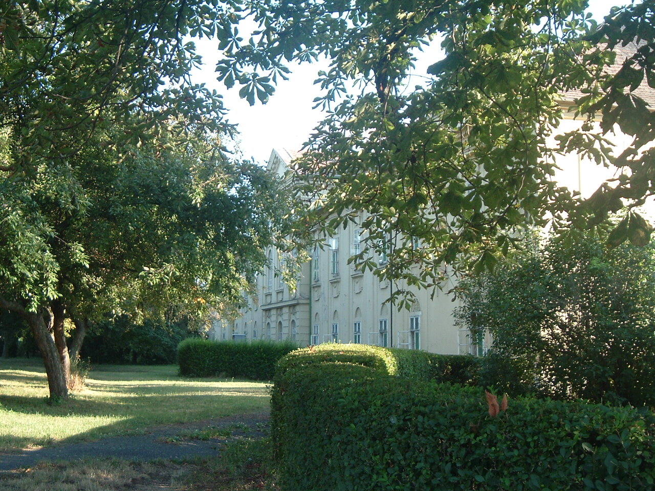 The Festetich mansion in Simaság